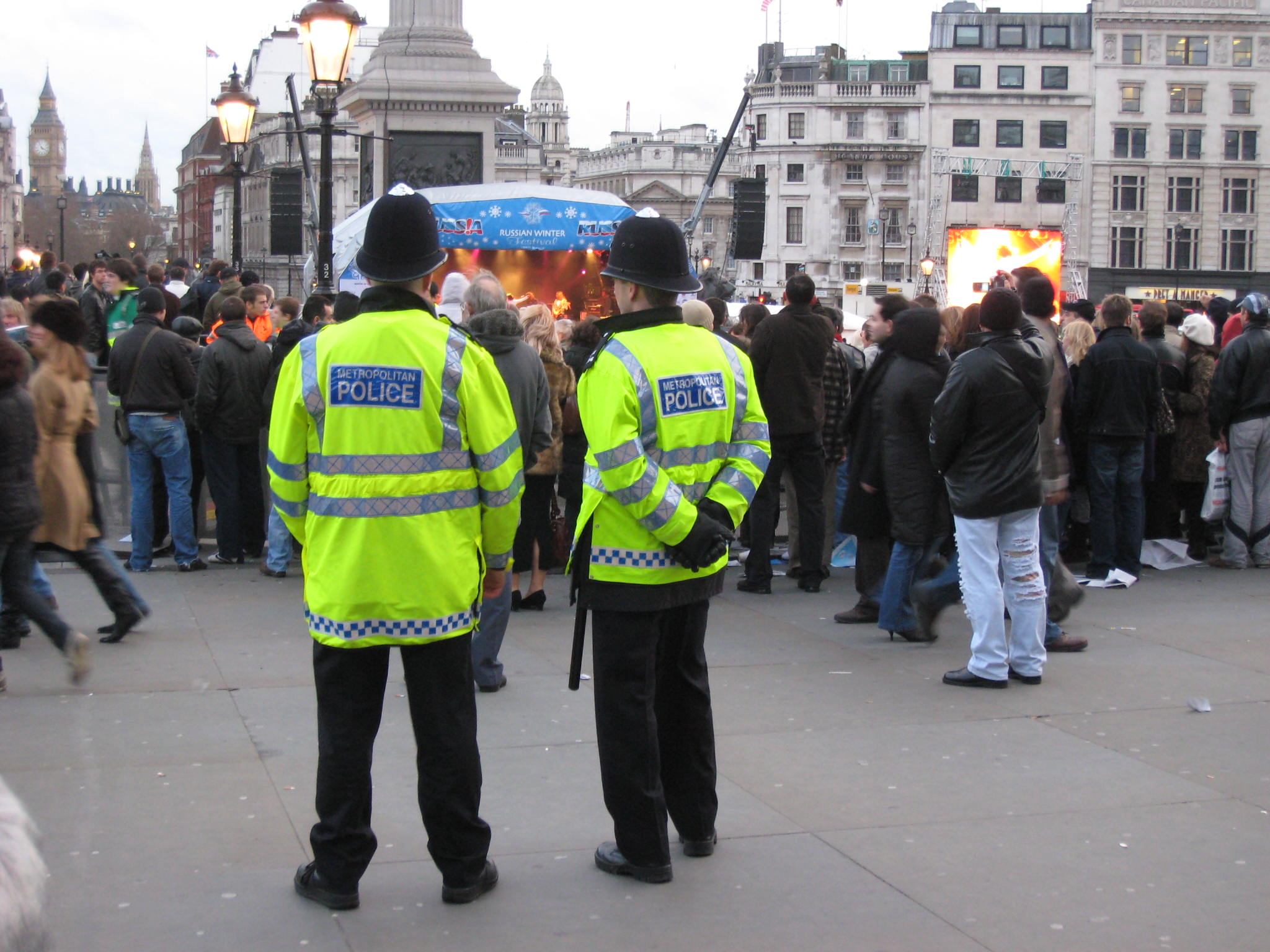 Metropolitan Police officers on patrol in London's Trafalgar Square